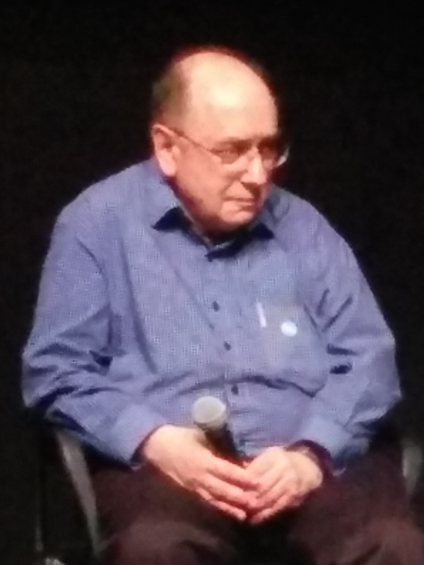 Ernie Gehr at a Q&A session at BAMPFA in Berkeley, California, United States